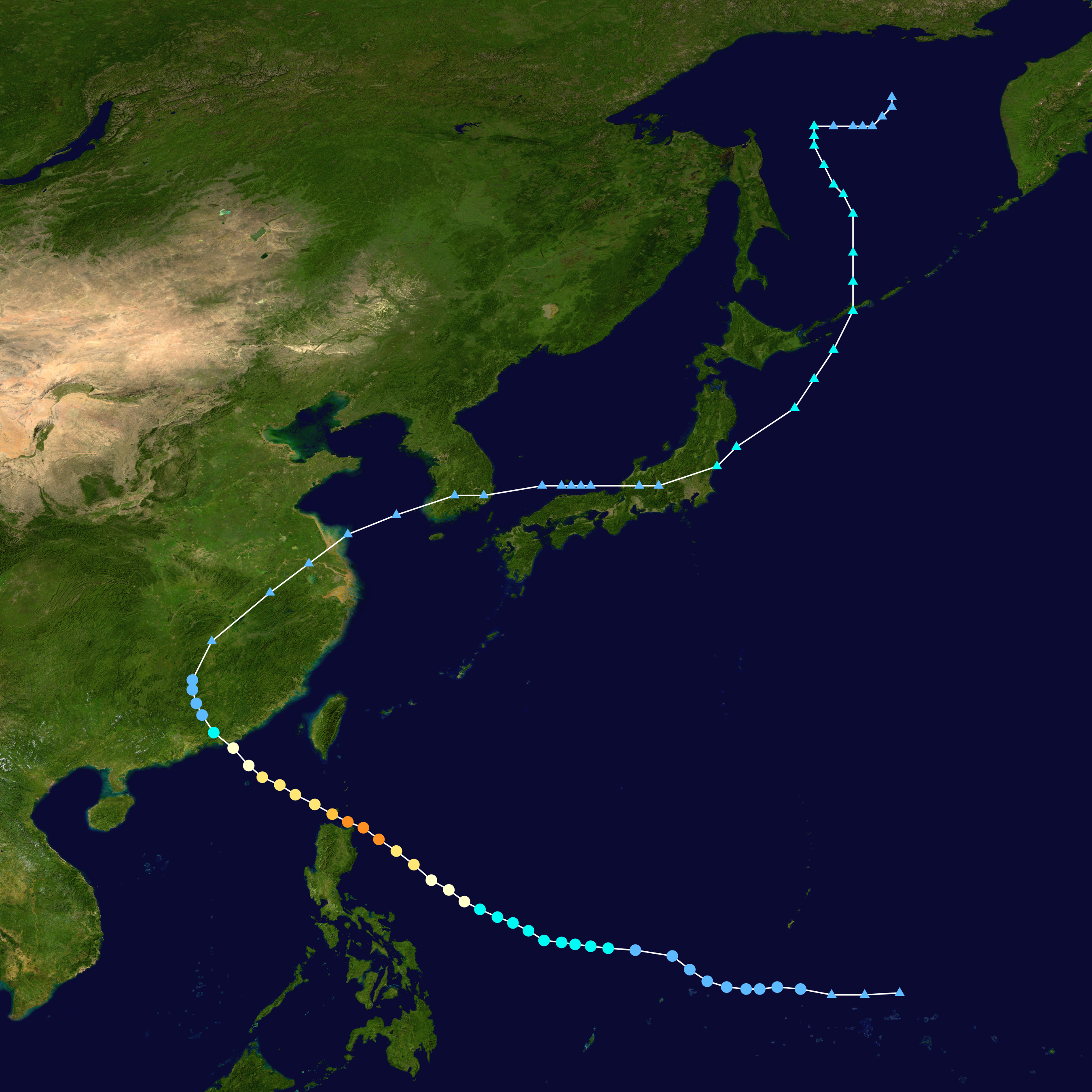 Typhoon Clara 1981 track. Uses the color scheme from the Saffir-Simpson Hurricane Scale.